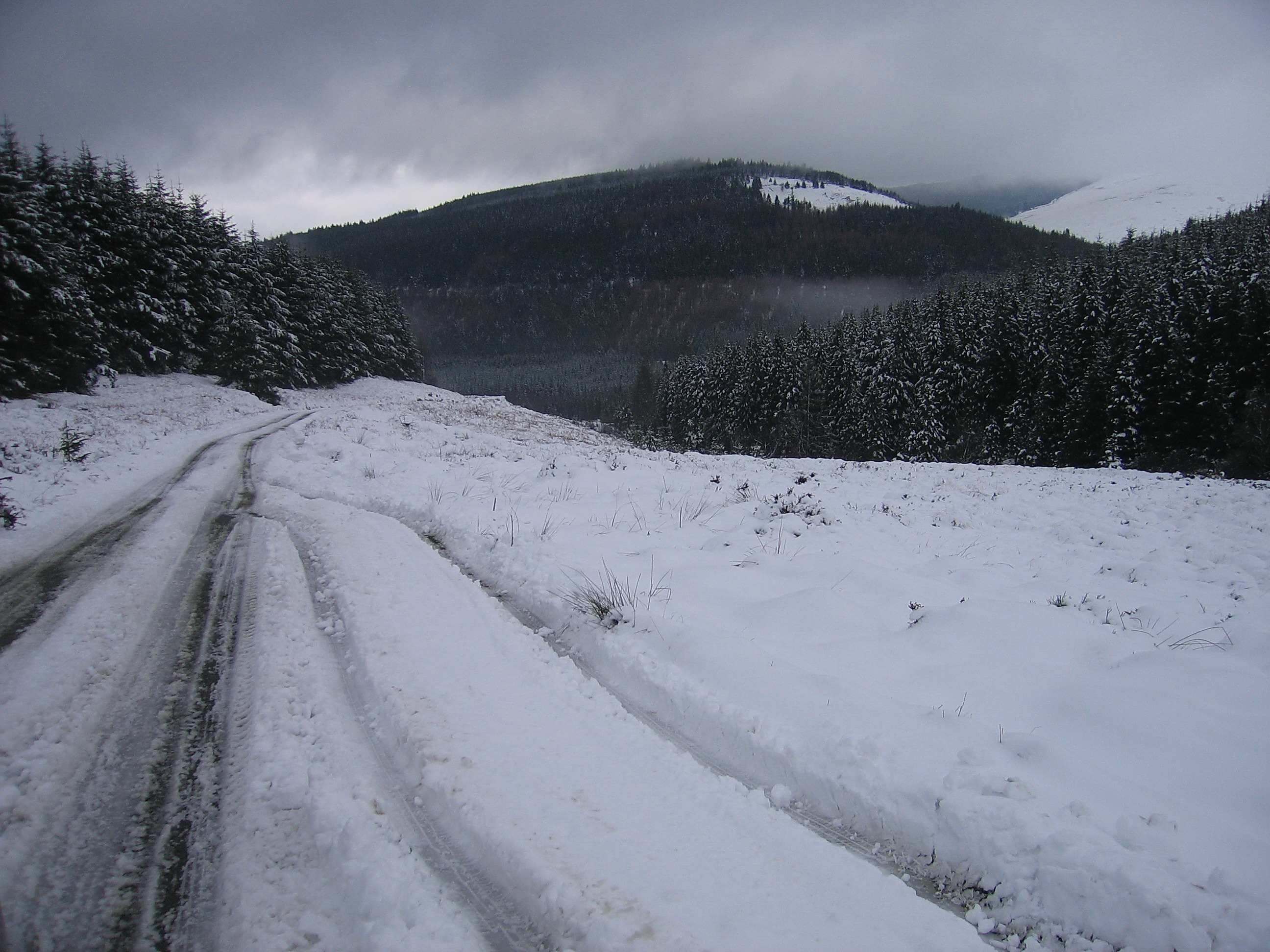 "The Military Road" (R115) looking south, between Laragh and Glenmalure, Ireland.